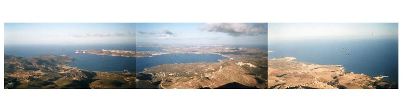 This is Milos Island Aerial view from its tallest peak from my own work seperated pictures side by side into one.